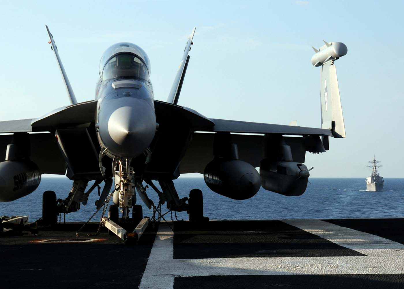 ATLANTIC OCEAN (Oct. 13, 2010) An EA-18G Growler assigned to Electronic Attack Squadron (VAQ) 141 is on the flight deck of the aircraft carrier USS George H.W. Bush (CVN 77). George H.W. Bush is underway conducting Tailored Ship's Training Availability and Final Evaluation Problem. (U.S. Navy photo by Naval Aircrewman 3rd Class Joshua K. Horton/Released)